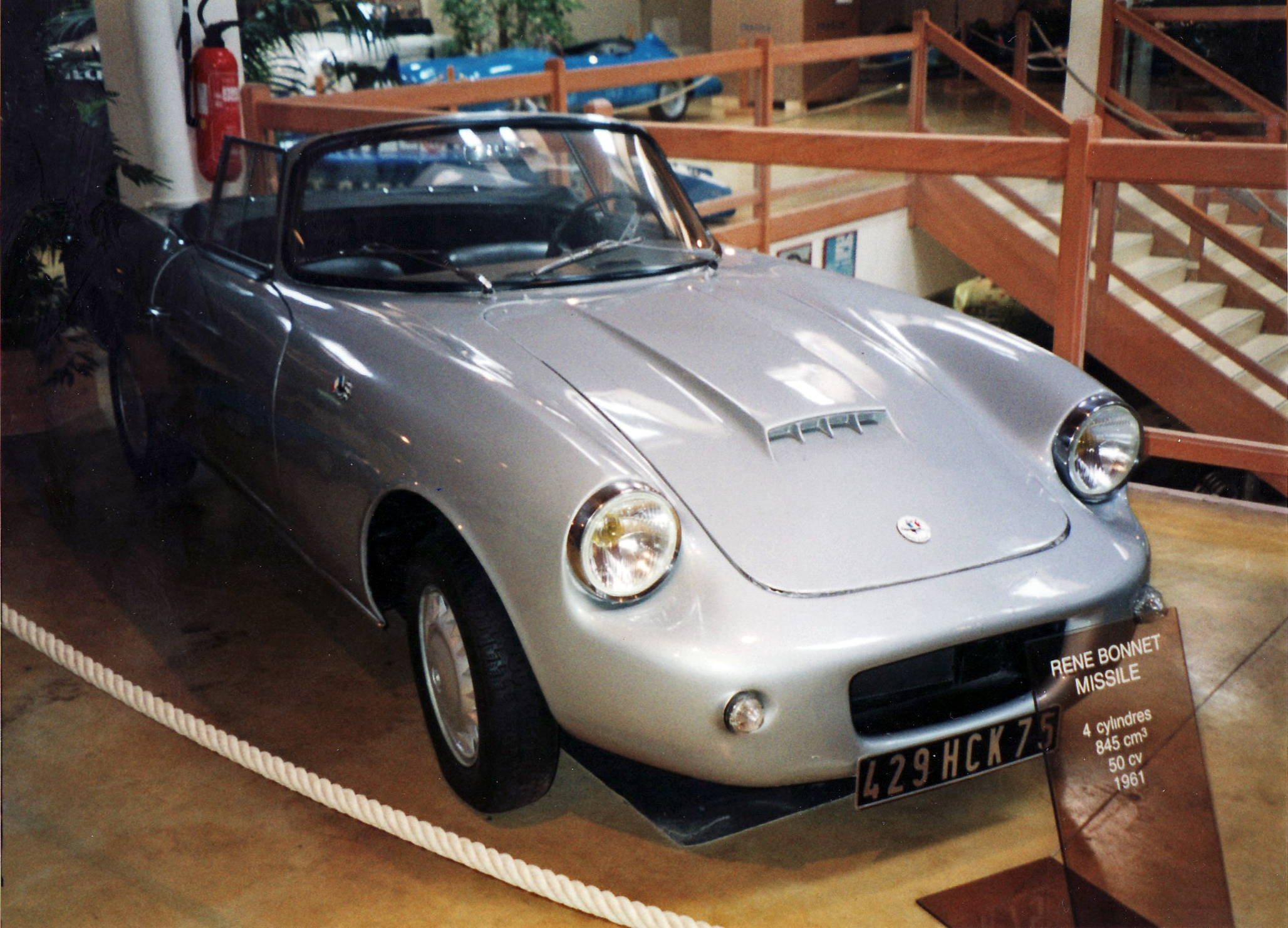 Missile was front wheel drive using Renault 4 mechanicals.